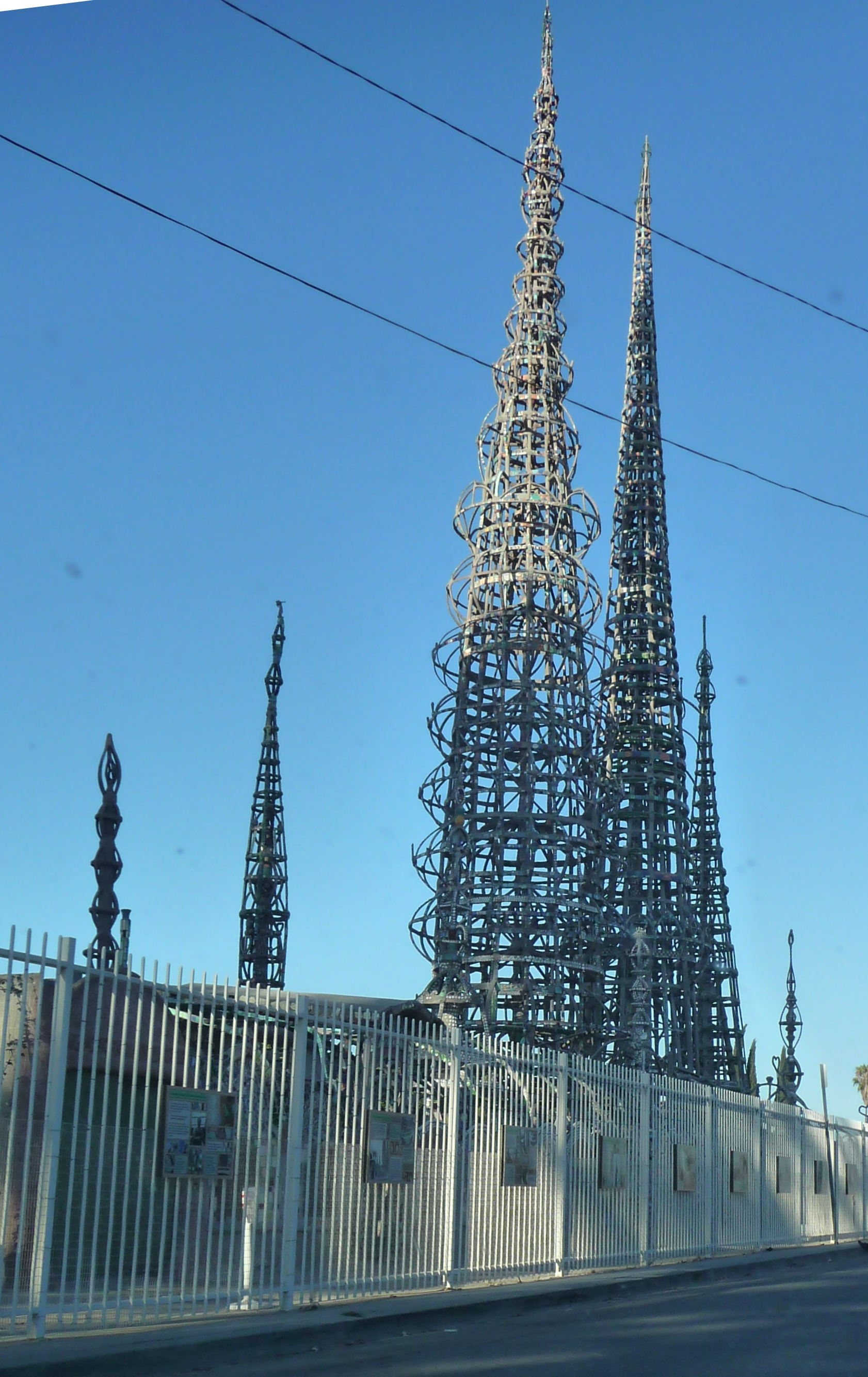 Los Angeles - Watts Towers